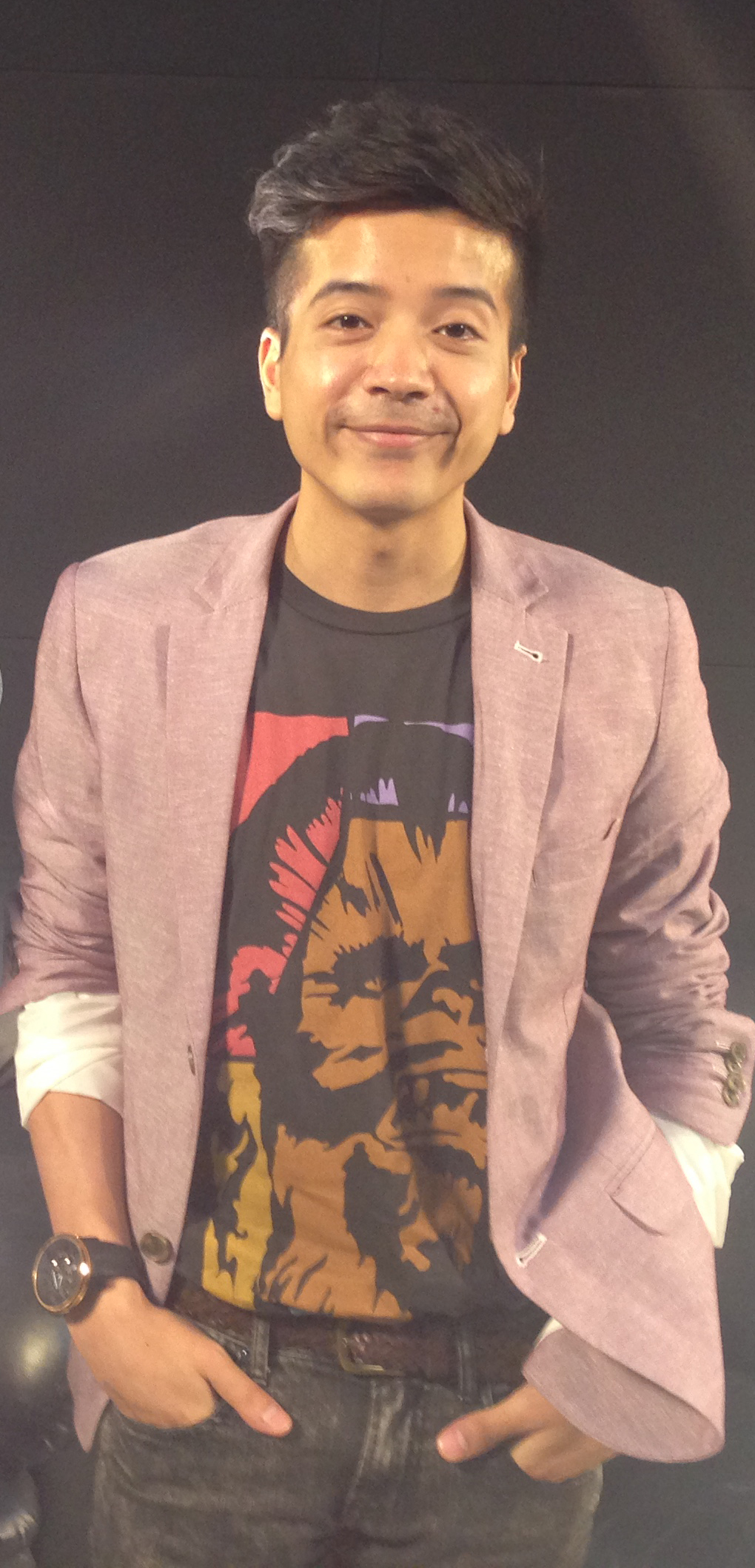 Singha at VERY TV.